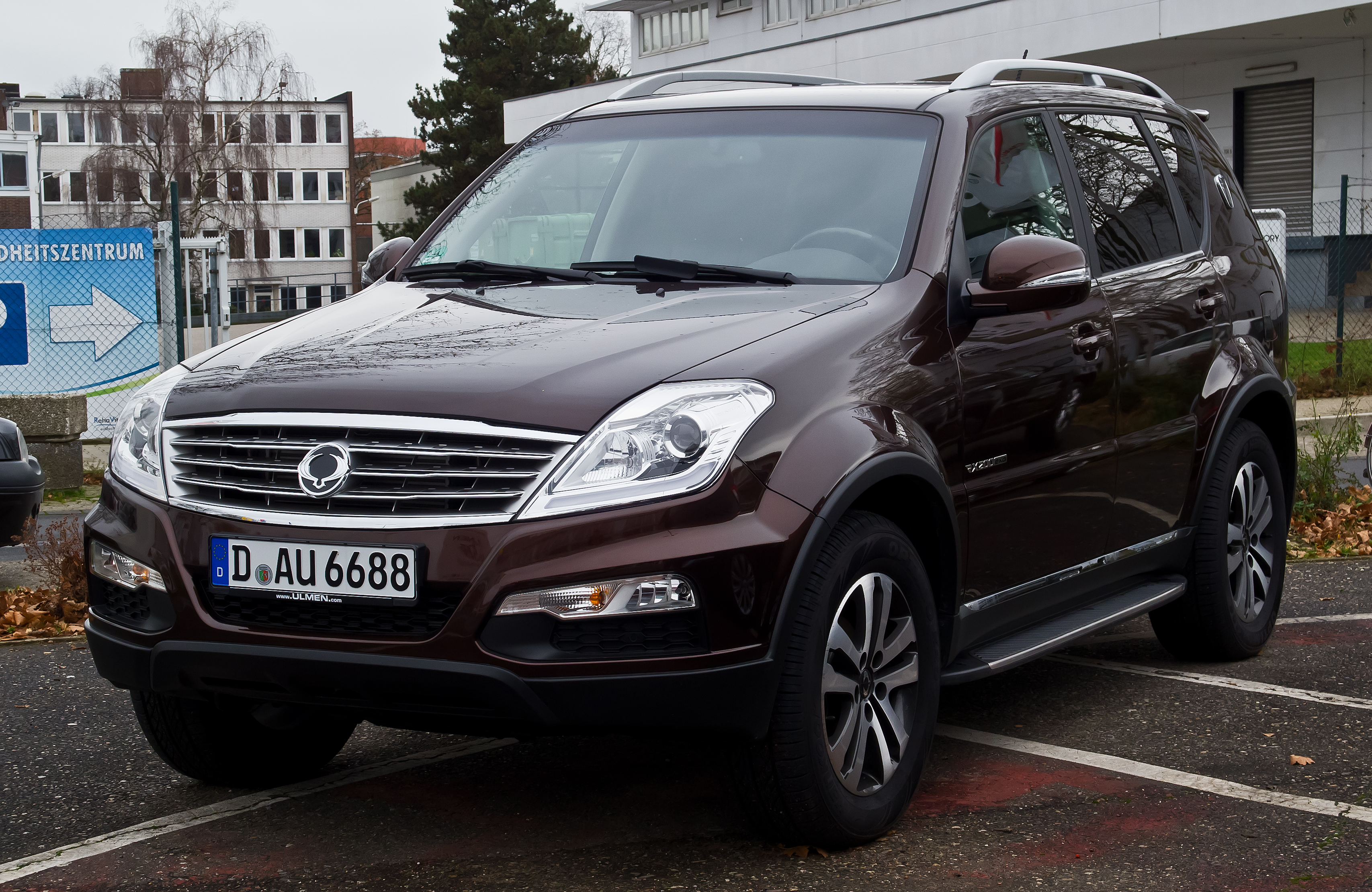 SsangYong Rexton W RX200e-XDi Sapphire (2. Facelift)